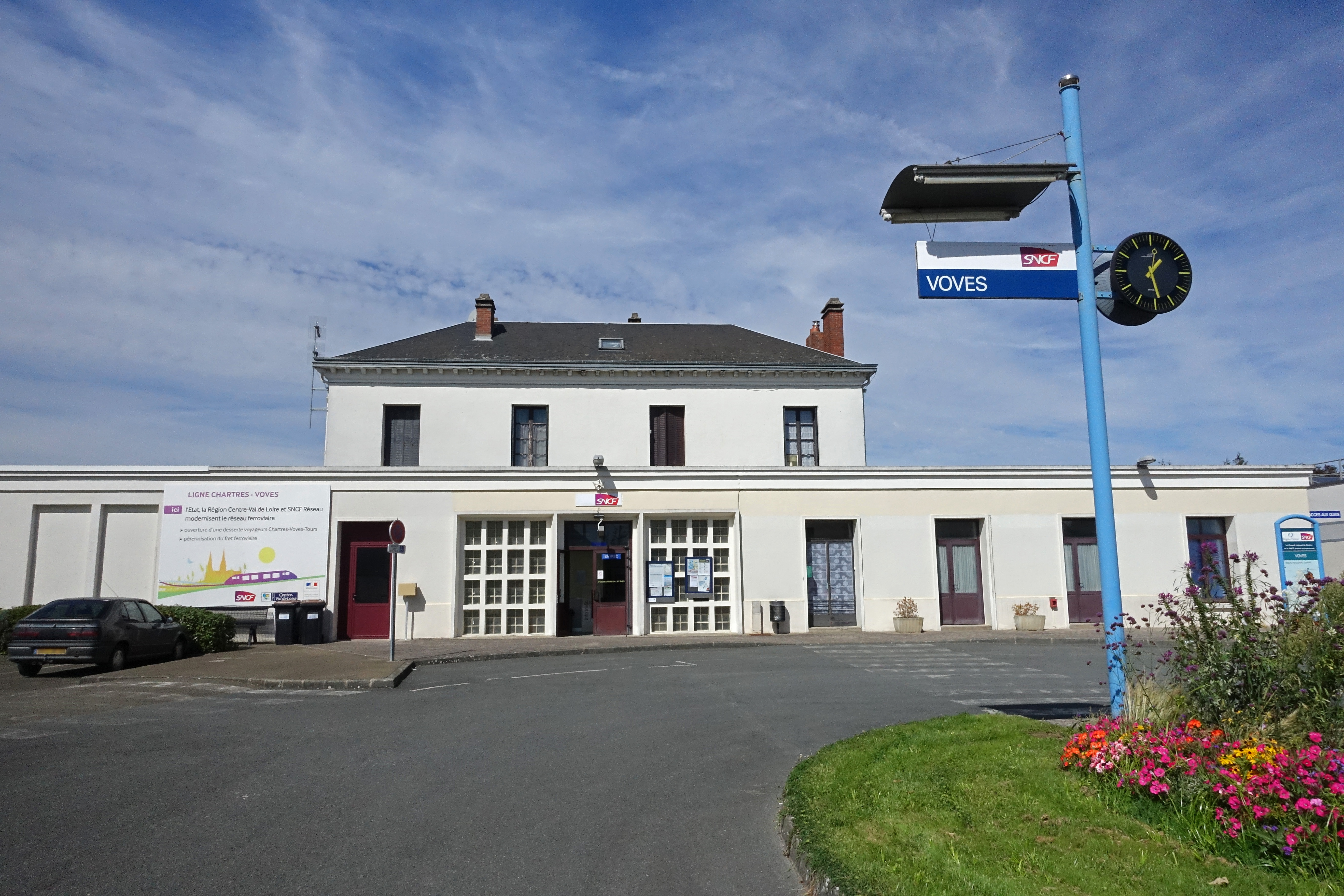 Main building of Voves station, France.